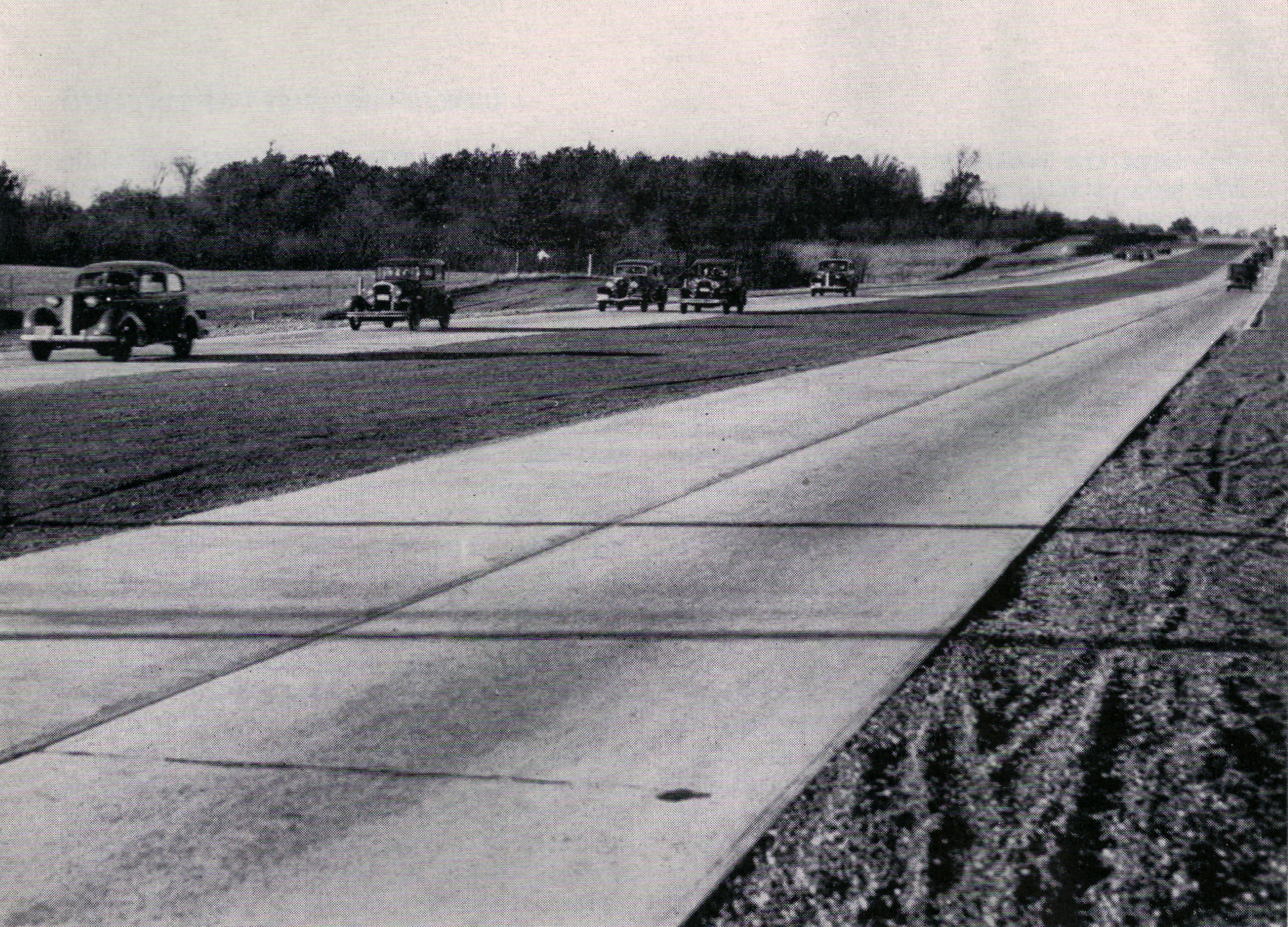 "New" (at the time) Middle Road between Toronto and Hamilton. The first true divided highway in Ontario, and a precursor to the modern freeway.